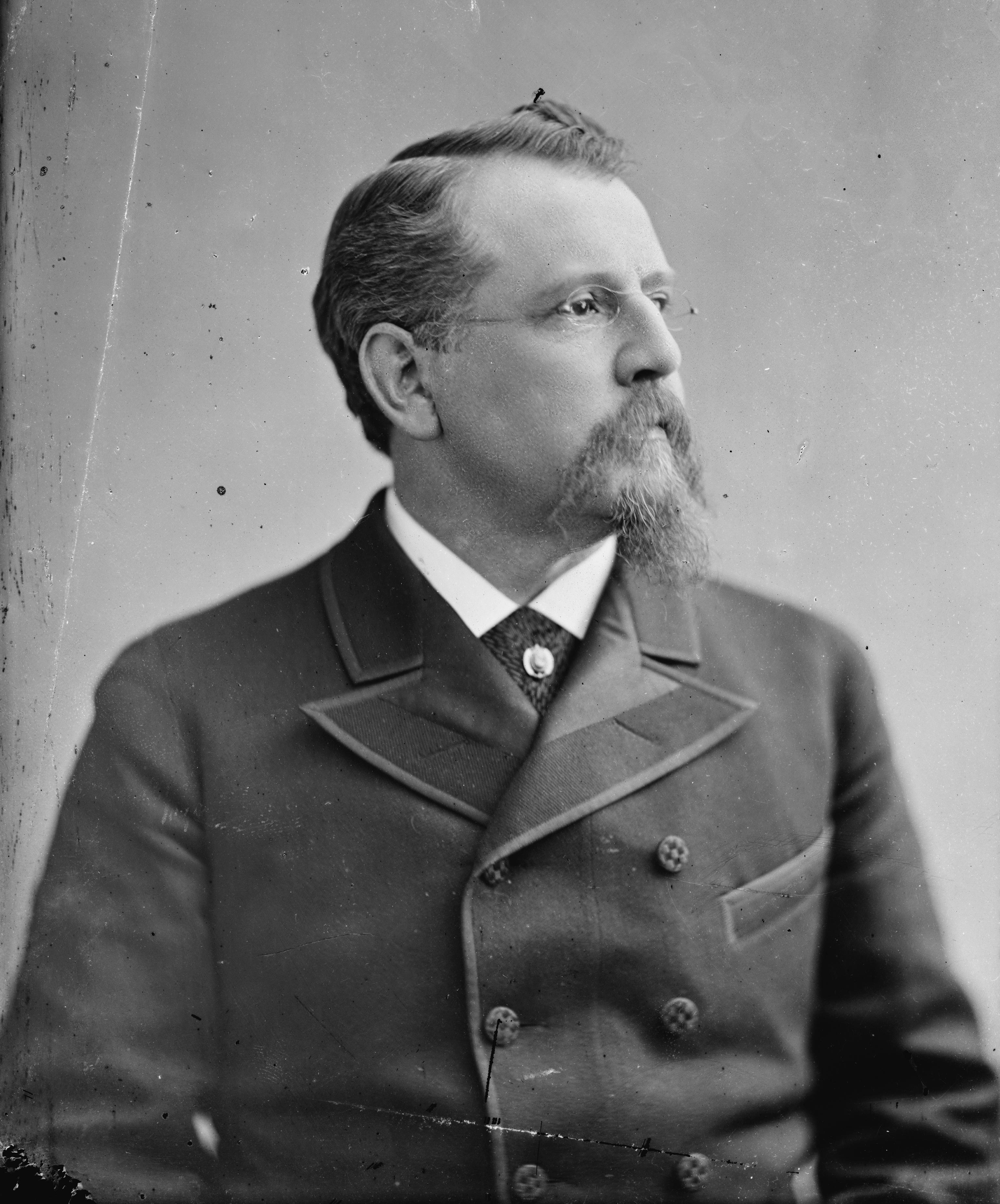 Charles F. Manderson. Library of Congress description: "Manderson, Hon. C.F. of Nebraska".